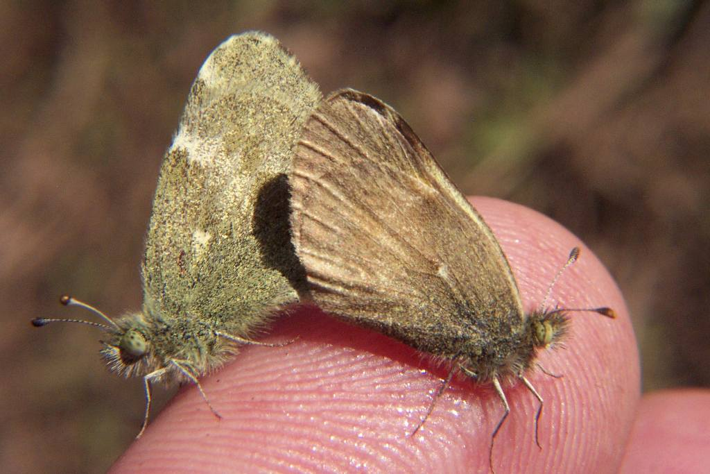 Nathalis iole, commonly known as "Dwarf Yellow or dainty sulphur" butterfly. Male and female in copulo.